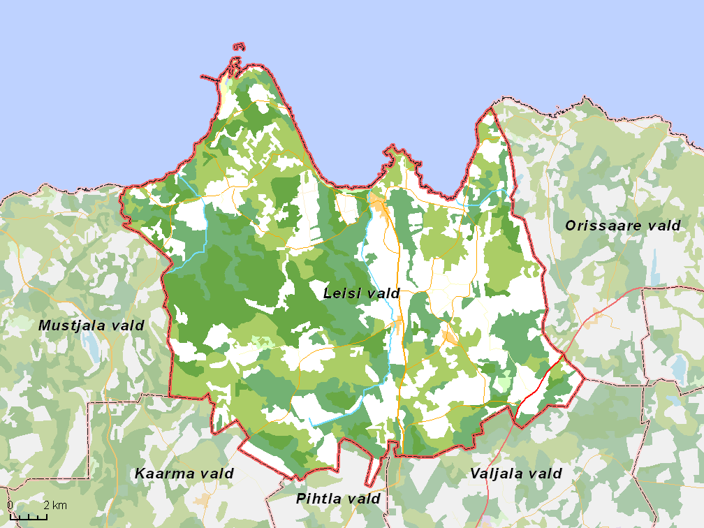 Map of municipality in Estonia